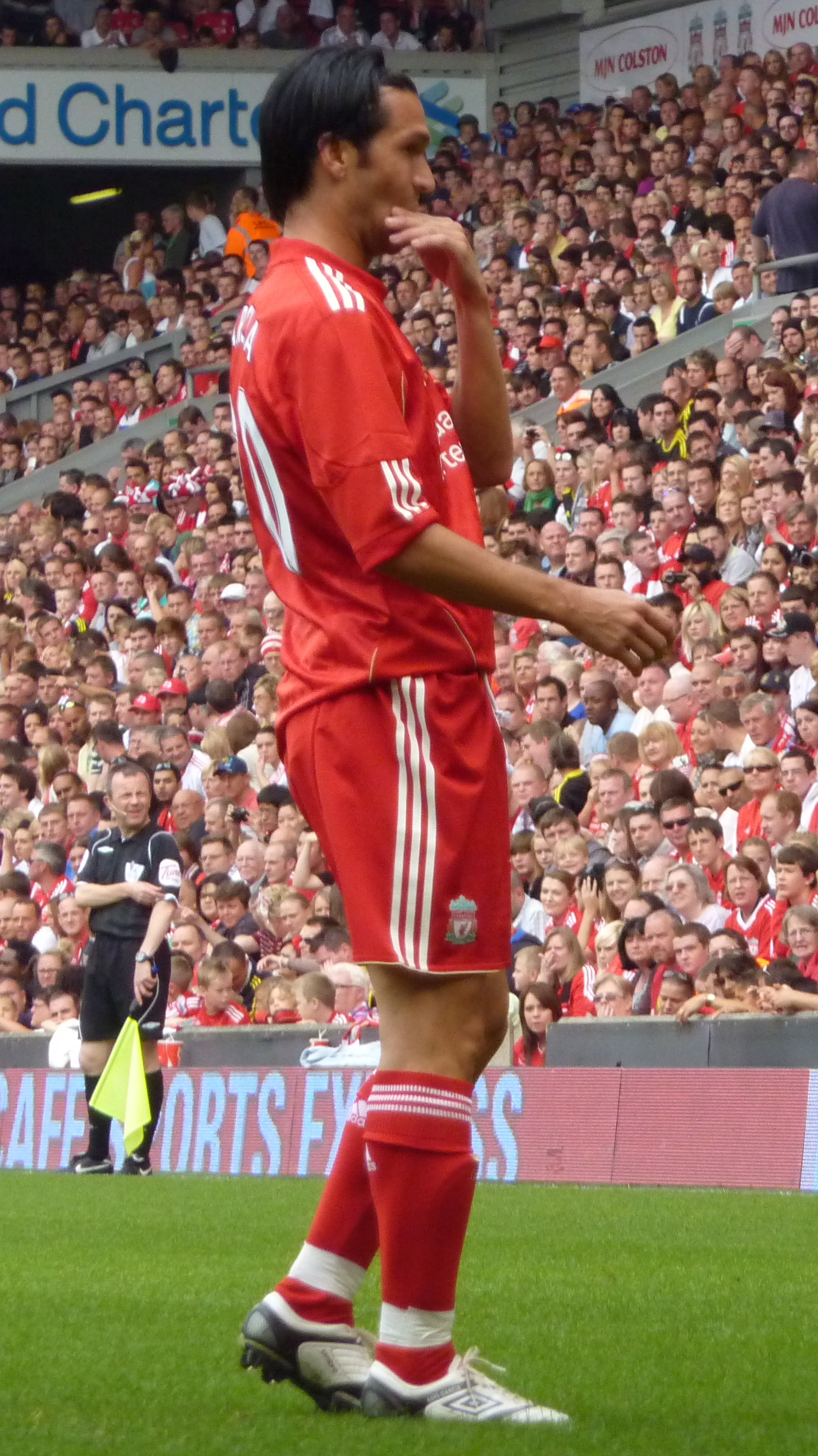 Spanish football player Luis García Sanz during Jamie Carragher Testimonial Match.